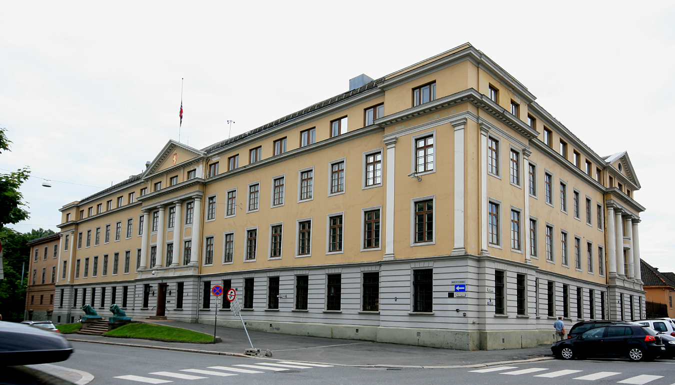 Ministry of Defence, Norway. Myntgata 1, Oslo. Built 1835 - architects Heinrich Schirmer and Wilhelm von Hanno. Rebuilt and enlarged 1899 - architect Christian Fürst.